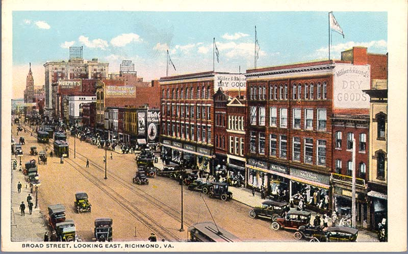 Broad Street, Richmond, Virginia. Looks to be early 1920s (judging from automobiles and the buildings that are extant).